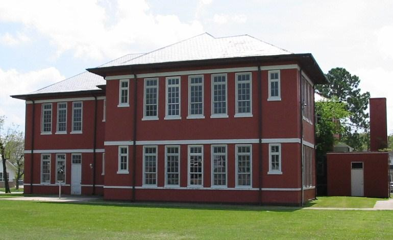 Old Red Schoolhouse. Trinity's first schoolhouse was a one-room log structure built in 1872 near Cedar Grove Cemetery. A two-story frame schoolhouse that stood on this site from 1897 to 1911 was moved several blocks northwest to serve African American students. Under Supt. J. Woolam Bright, construction of a new brick building began here in 1911, and after many delays it opened by 1915. The Prairie Style, T-Plan building housed all grade levels until completion of an adjacent High School in 1928. "Old Red" served as a schoolhouse for 80 years. When it was slated for demolition in the 1990s, concerned citizens and former students worked with the School District to preserve the historic building for continued use. Recorded Texas Historic Landmark - 2004. Listed in the National Register of Historic Places by the United States Department of the Interior.